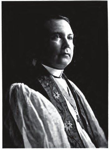 Photograph of Thomas Frank Gailor, circa 1904, Third Bishop of Tennessee (Episcopal).